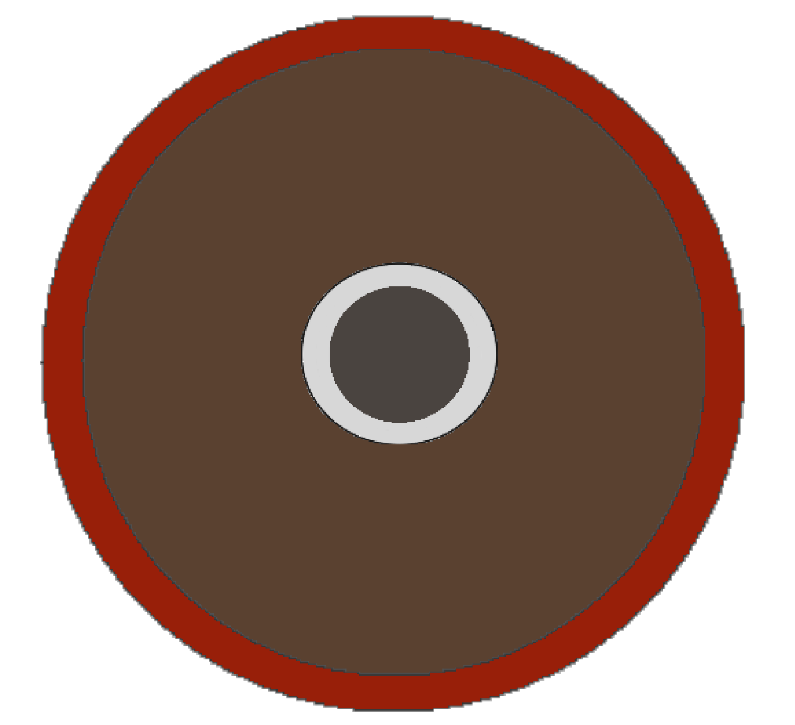 Shield pattern o.t. Fortenses is one of the legiones comitatenses units listed in the Magister Peditum infantry roster, assigned to the army o.t. Comes Hispaniarum, Notitia Dignitatum, 5th century (Bodleian Manuscript)